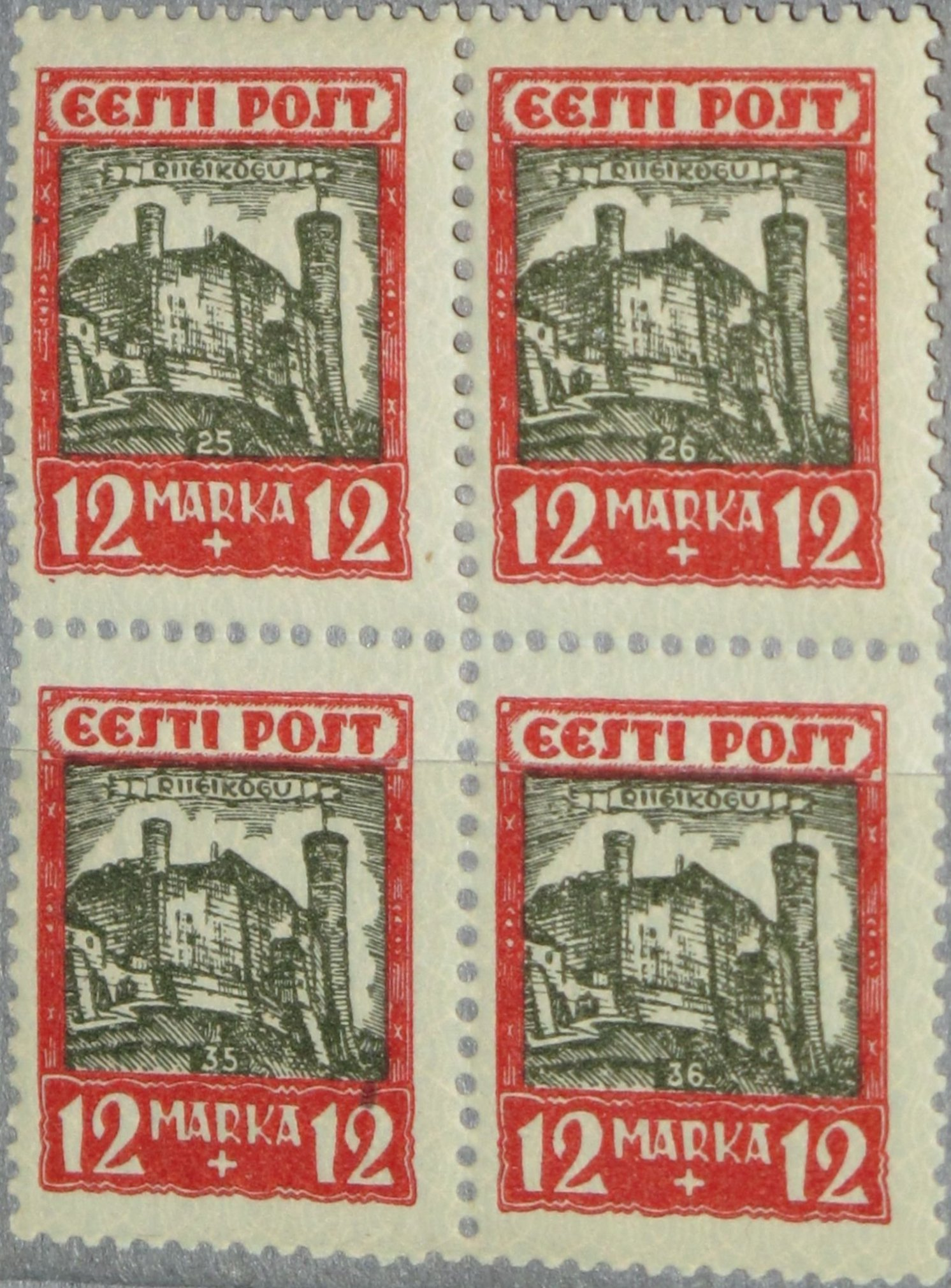 Blocks of 4 stamps of Estonia, 1927. Tallinn. Toompea Castle with Pikk Hermann tower.